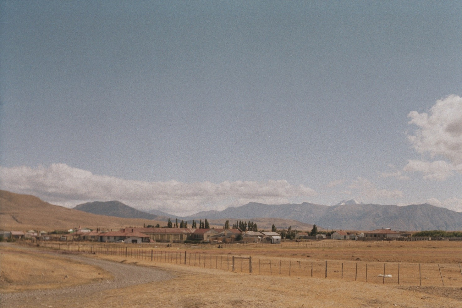 Cerro Castillo west view